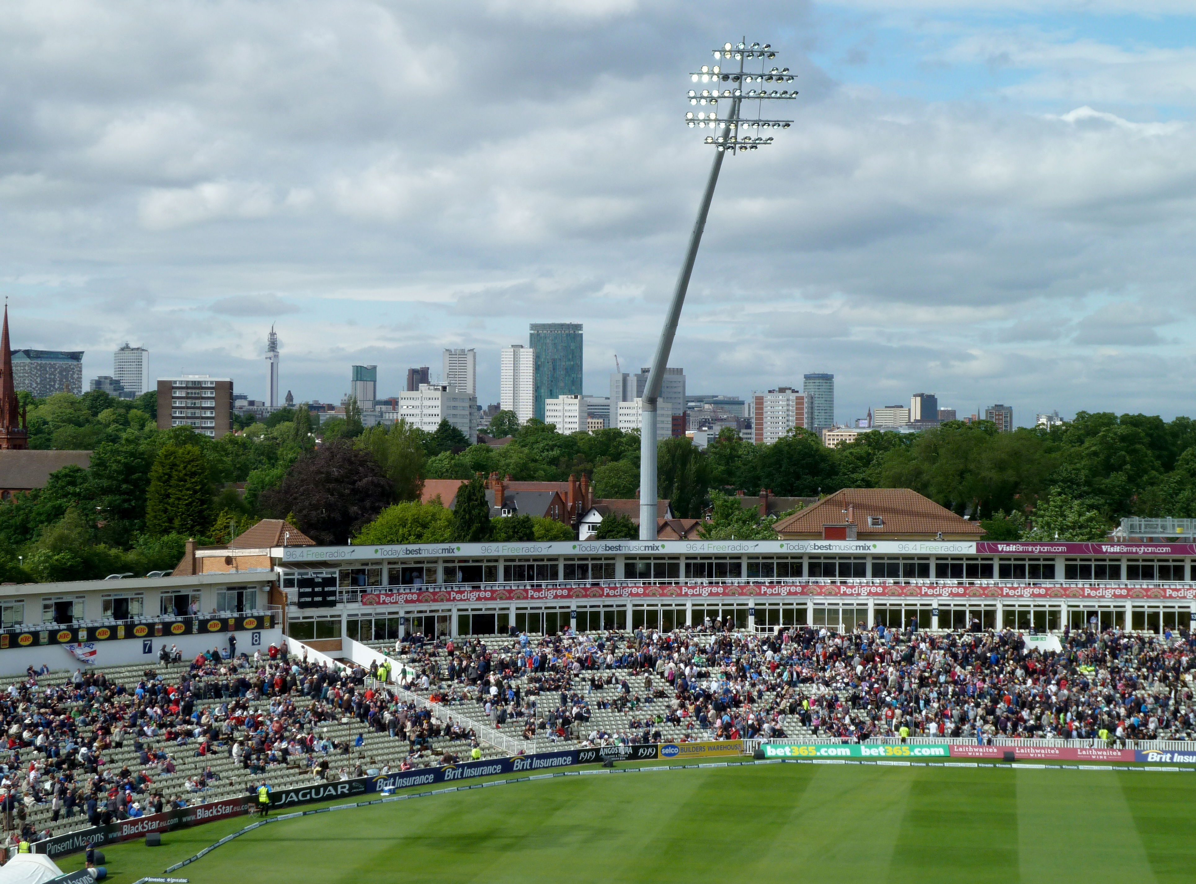 The Raglan and R. E. S. Wyatt Stands at Edgbaston Cricket Ground, with Birmingham City Centre behind